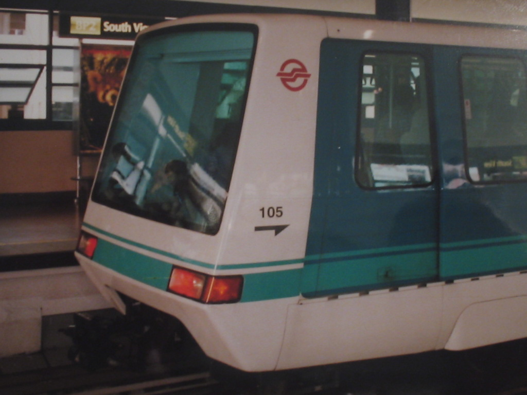 A Bombardier CX-100 train in its original livery leaving South View LRT Station, Singapore.